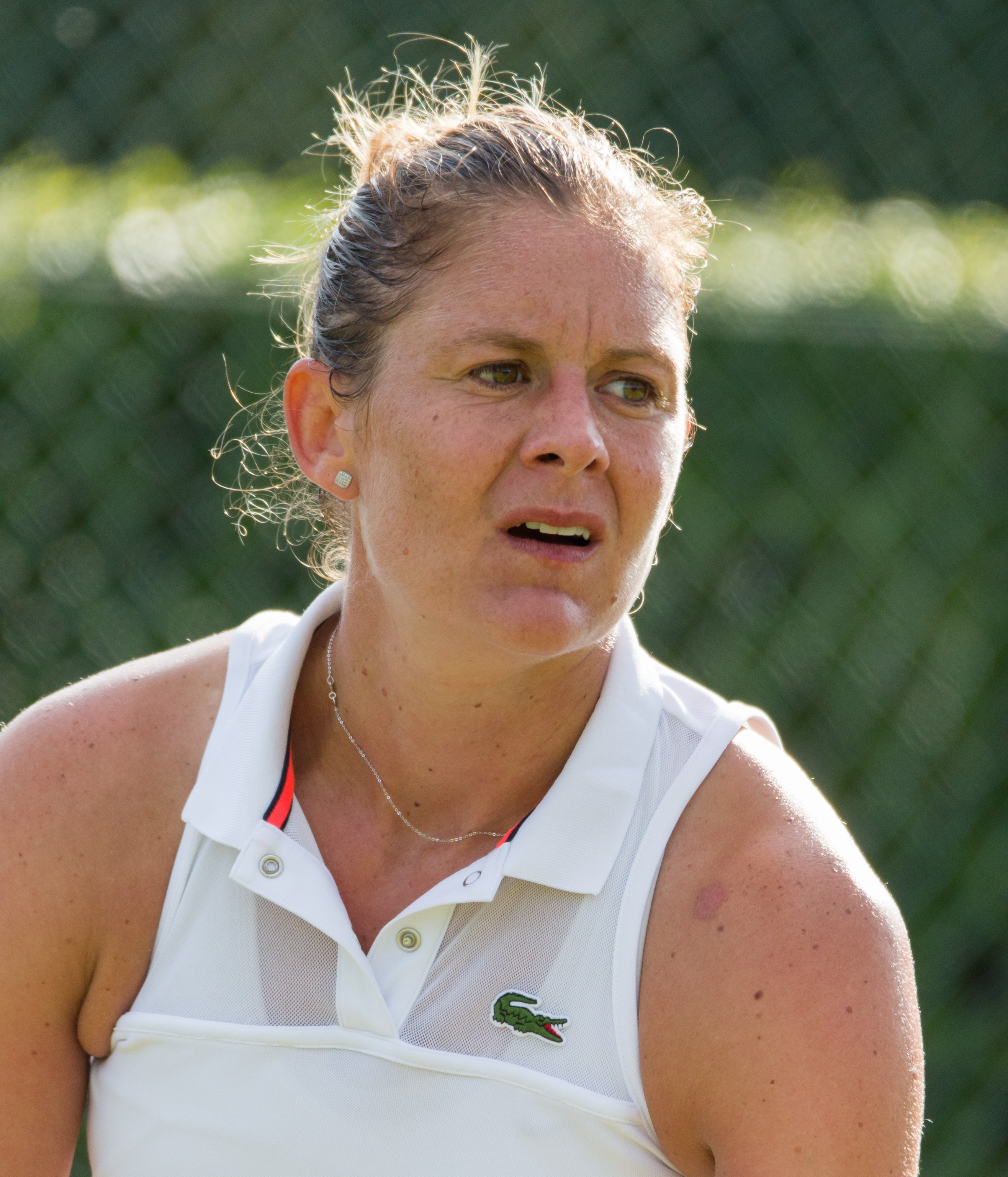 Julie Coin competing in the first round of the 2015 Wimbledon Qualifying Tournament at the Bank of England Sports Grounds in Roehampton, England. The winners of three rounds of competition qualify for the main draw of Wimbledon the following week.